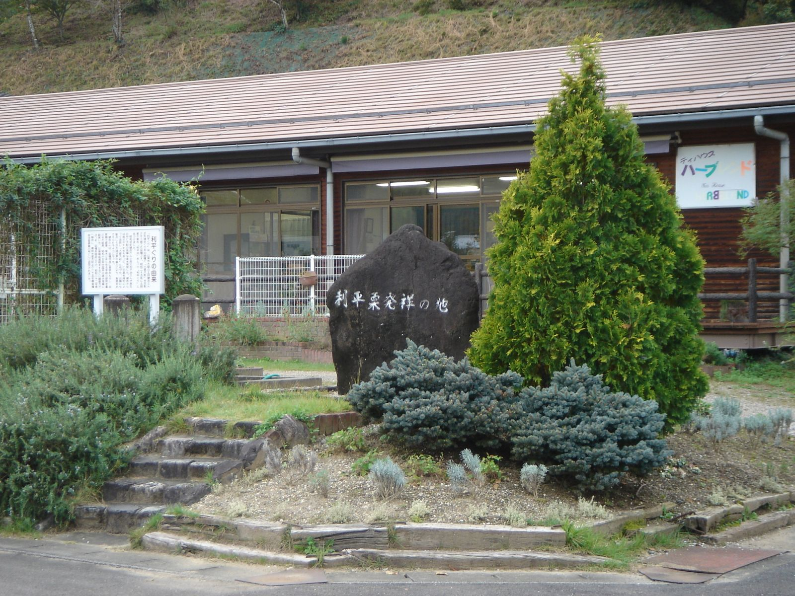 Memorial Monument of Rihei-Guri(Chestnut)'s Birthplace.（利平栗の発祥の地の碑）,Yamagata,Gifu,Japan(岐阜県山県市の「四国山香りの森公園」)で撮影。